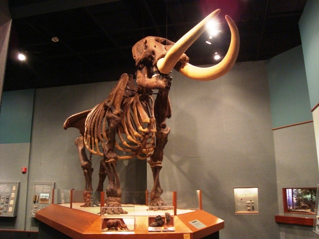 Florida Museum of History